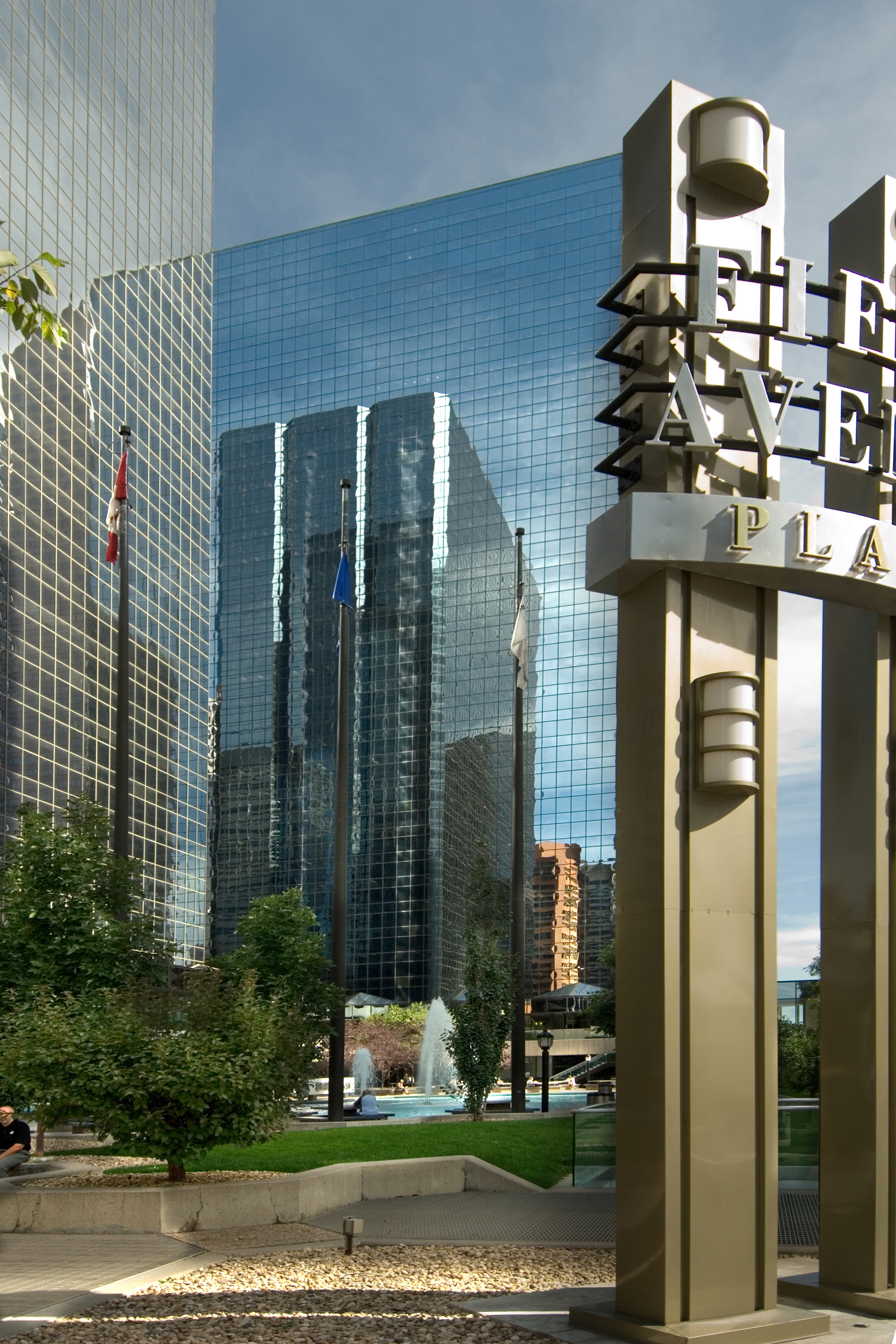 The West Tower of Fifth Avenue Place reflecting off of the twin East Tower, in Calgary Alberta. Photo taken with a Nikon D200 and a Nikon 12-24 f4 lens.